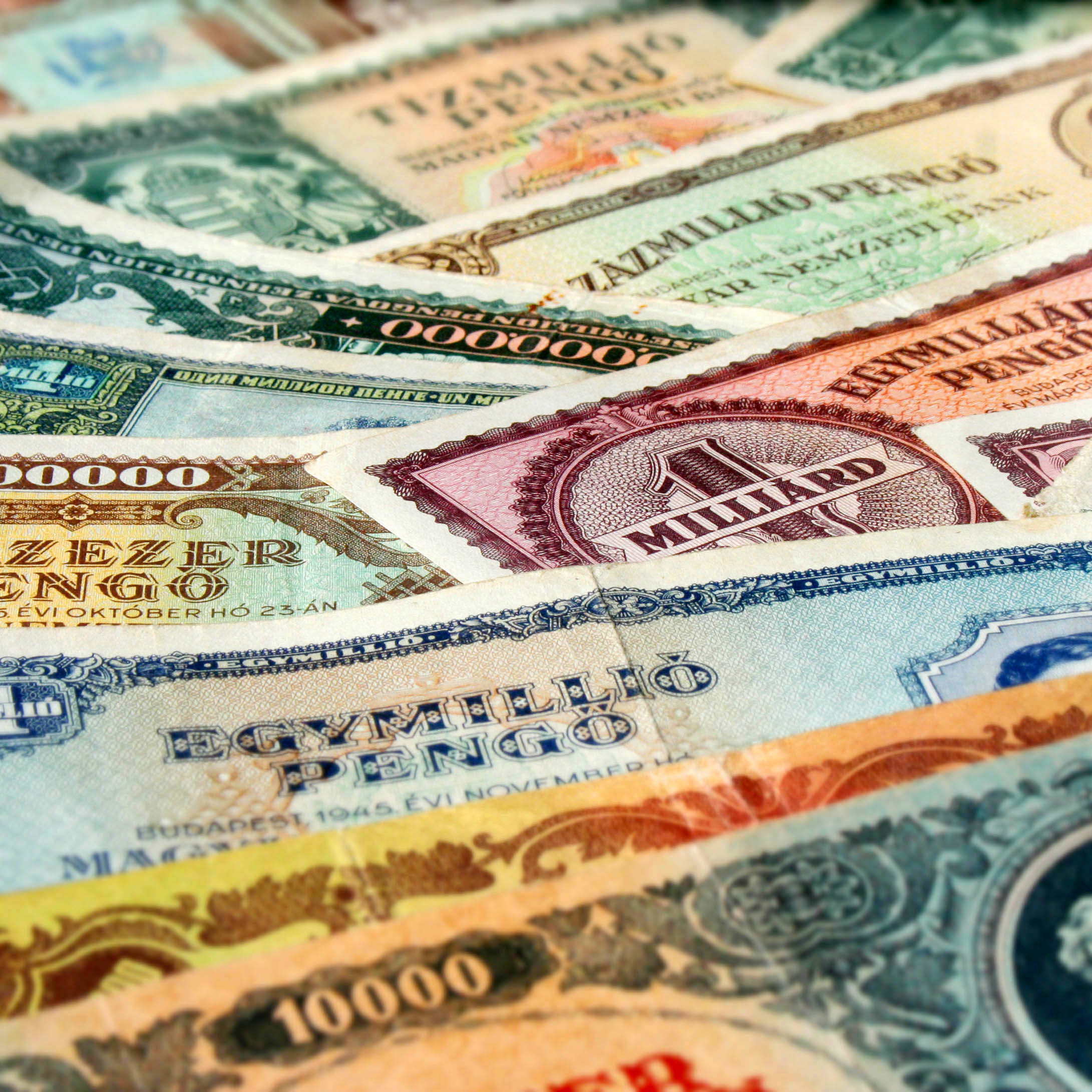 Inflations - Hungarian paper money, 1946. (1 milliard Pengő)